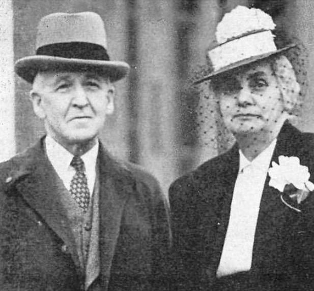 Photo of Henry H. Blood, the seventh Governor of the state of Utah and his wife Minnie Barnes Blood.